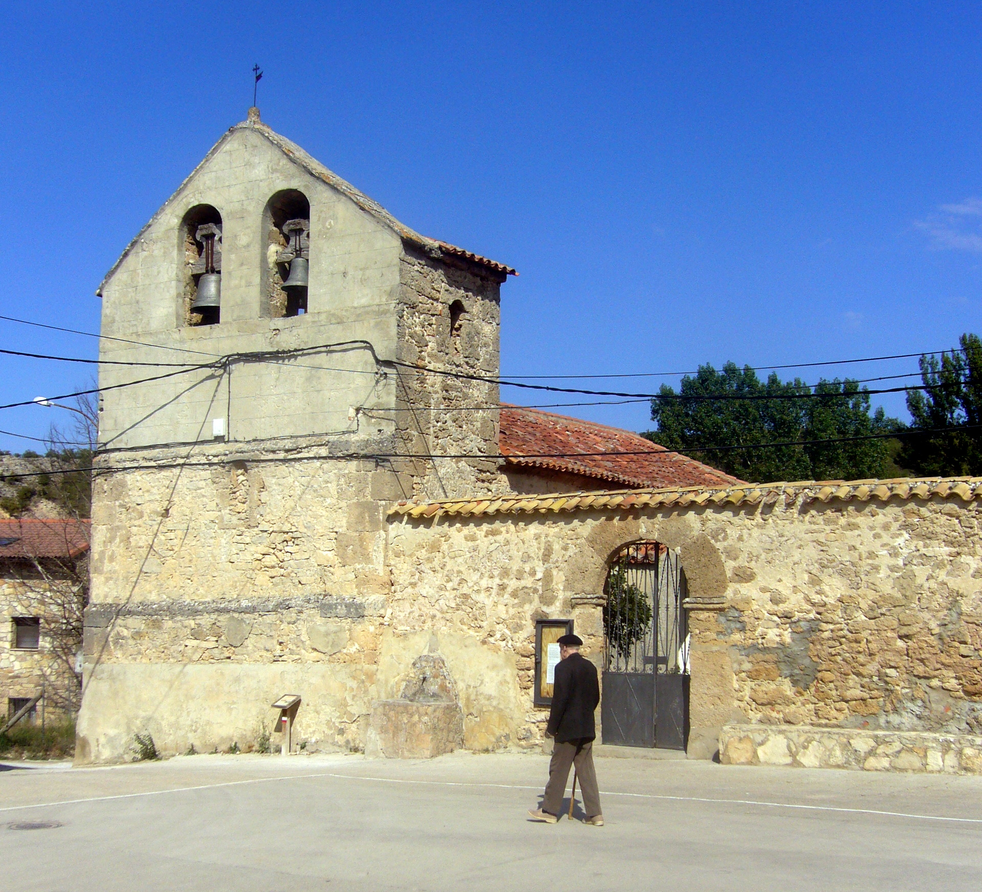 Church of San Bernabé, Urex de Medinaceli, Soria, Spain.